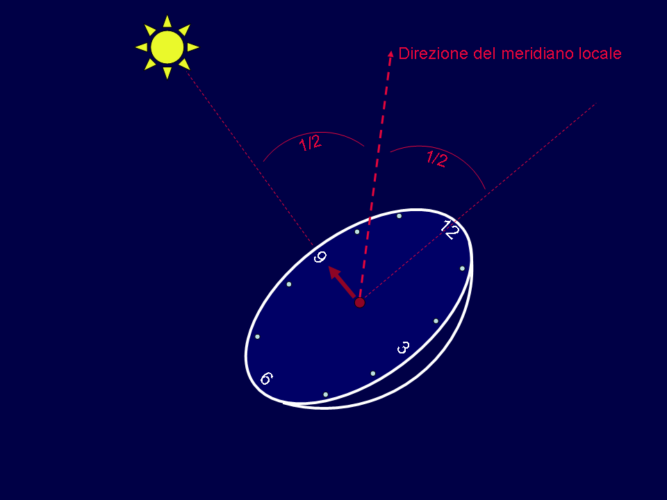 Celestial meridiator with the use the clock